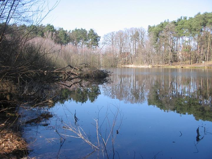 Protected area Pechpfuhl (german for: pitchmurkypool (?)) in Ludwigsfelde. Ludwigsfelde is a town in the district Teltow-Fläming, state Brandenburg, Germany.